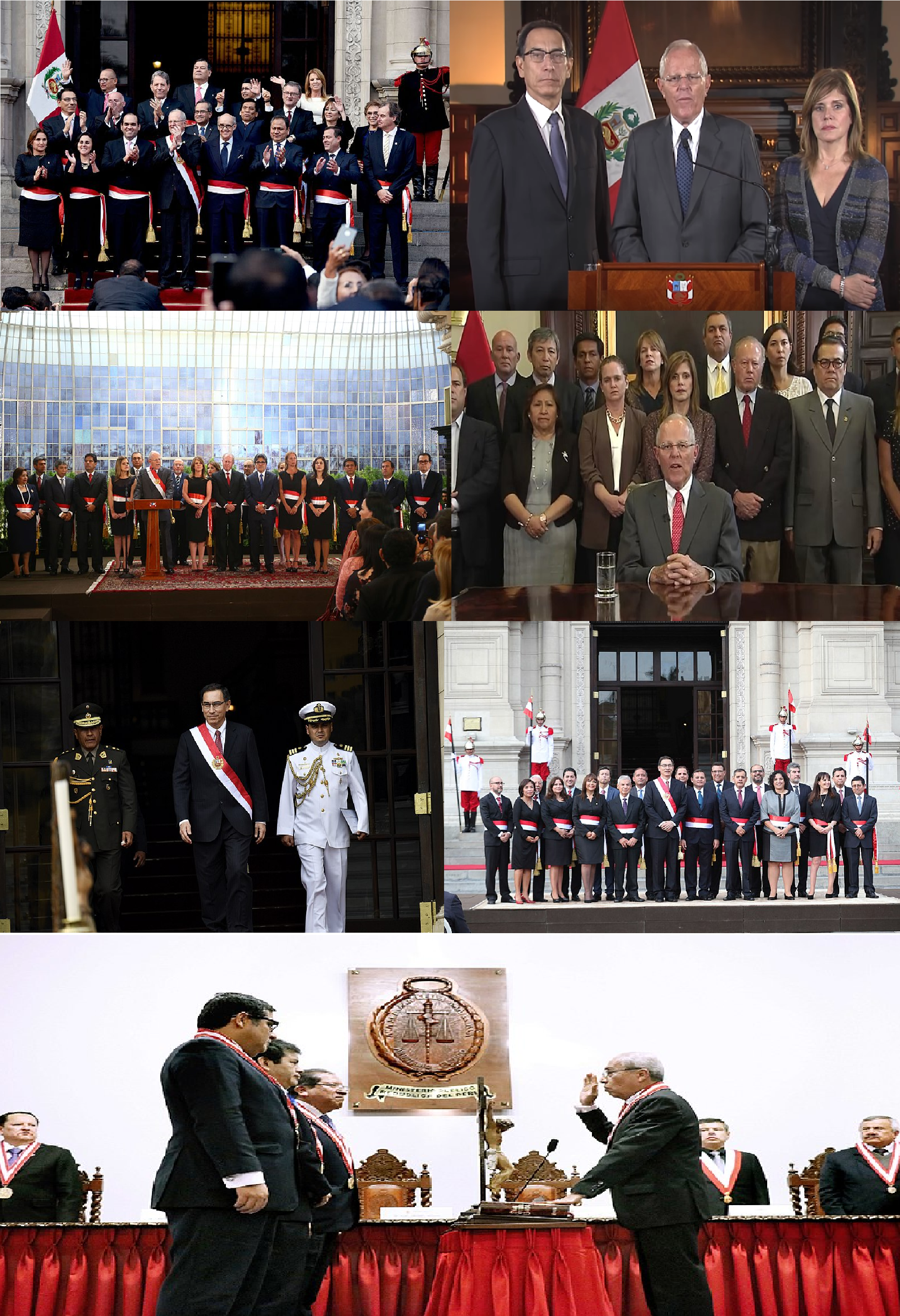 The different events of the political crisis in Peru from 2017 to the present.